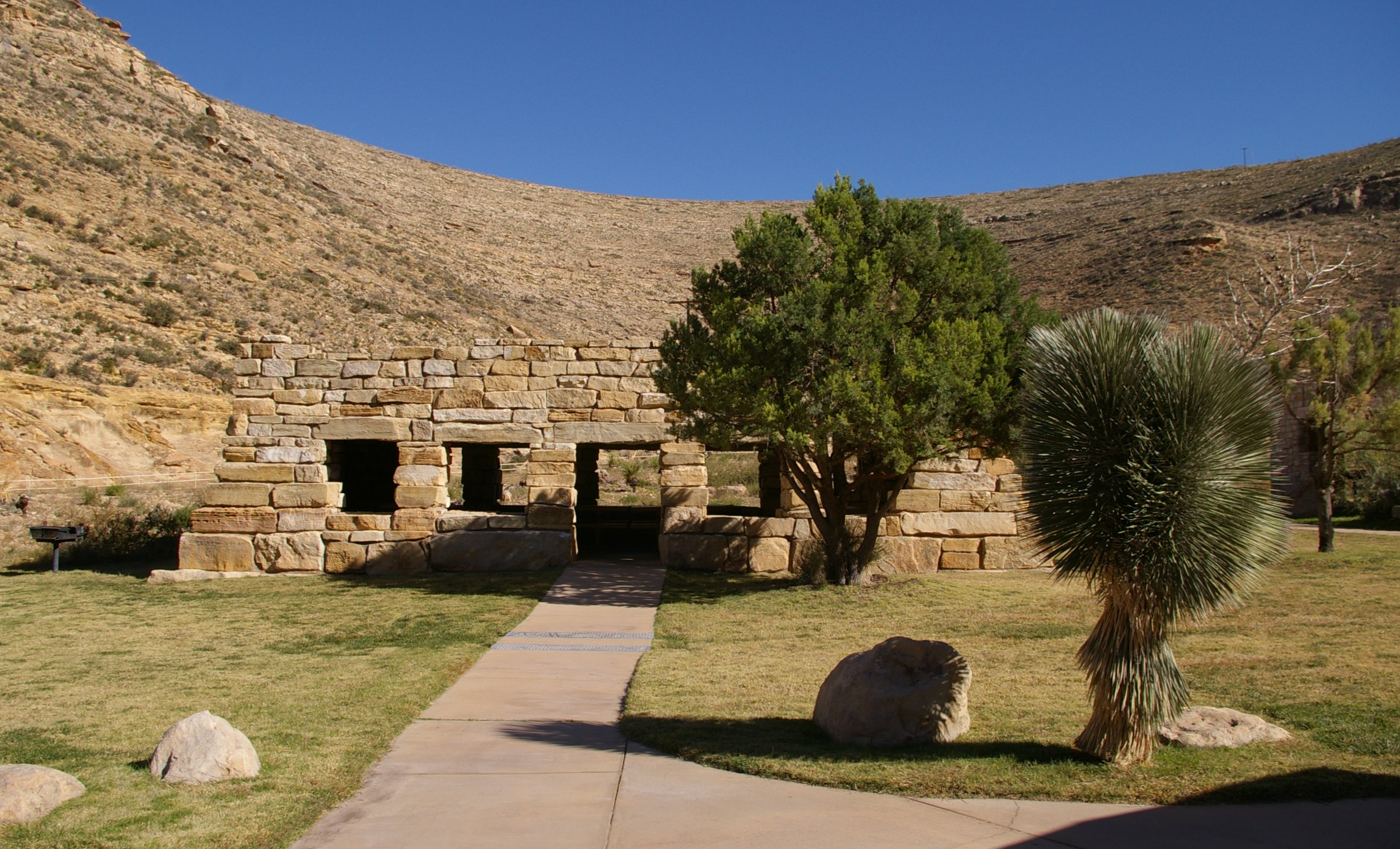 One of the WPA-era picnic shelters at Sitting Bull Falls, Lincoln National Forest, NM